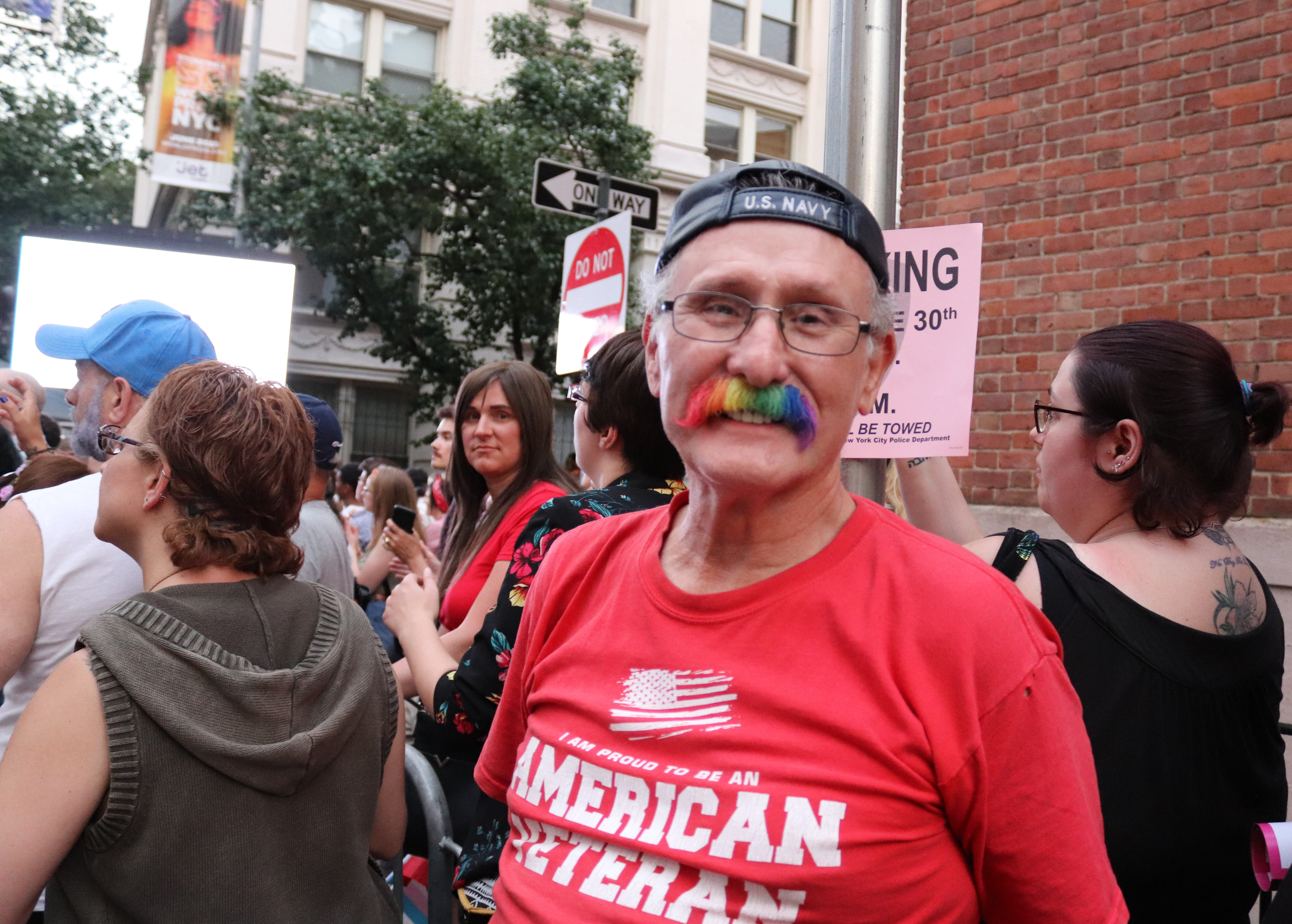 49th NYC LGBTQ Pride Rally in celebration of 50th Anniversary of the Stonewall Riots World Pride at Christopher Street and Waverly Place in New York City, NY on Friday evening, 28 June 2019 by Elvert Barnes Photography FACES IN THE CROWD Visit NYC 50th Anniversary of Stonewall Riots LGBTQ WORLD PRIDE 2019 RALLY website at 49th NYC LGBTQ WORLD PRIDE 2019 docu-project at